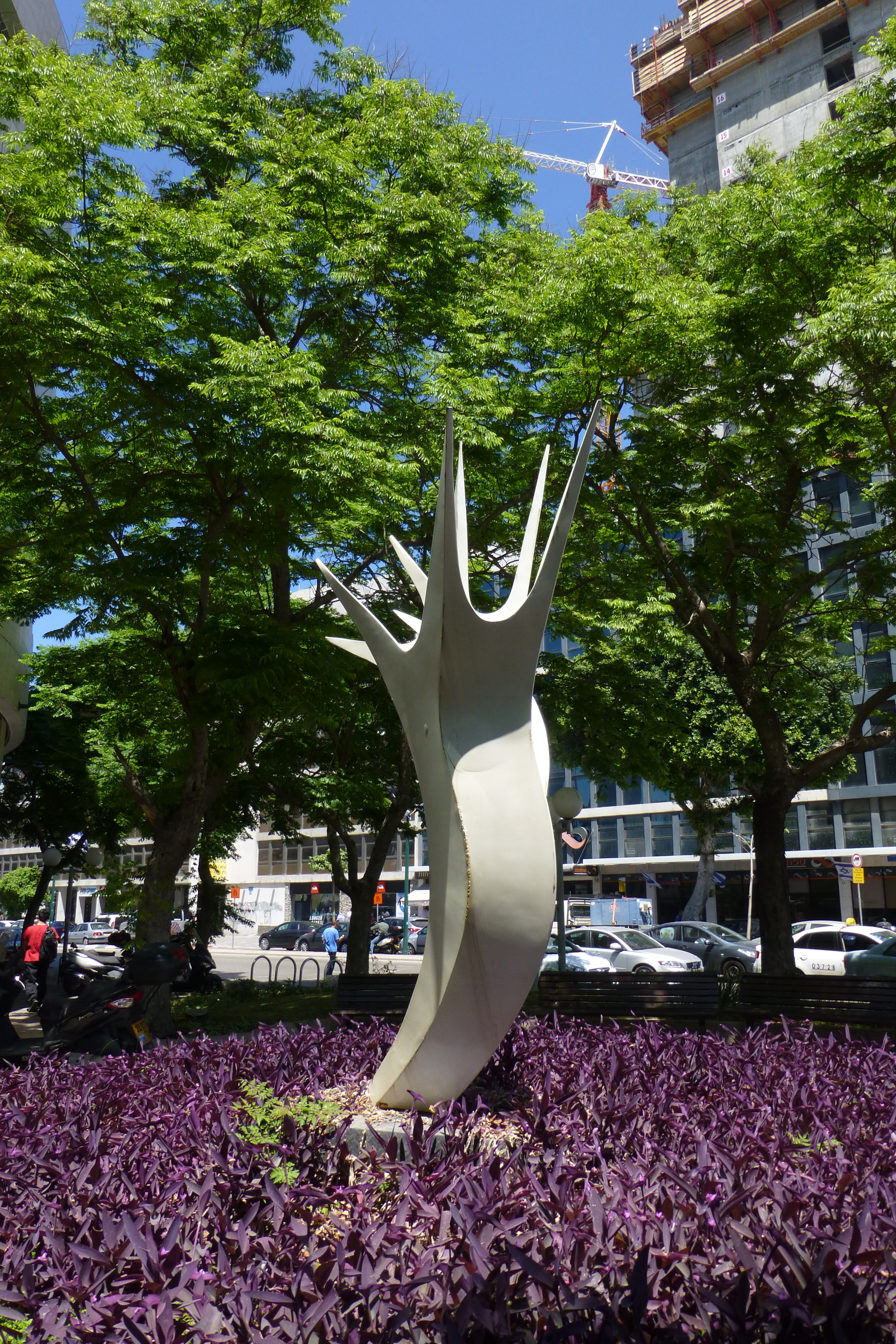 Begin Road, Tel Aviv-Yafo